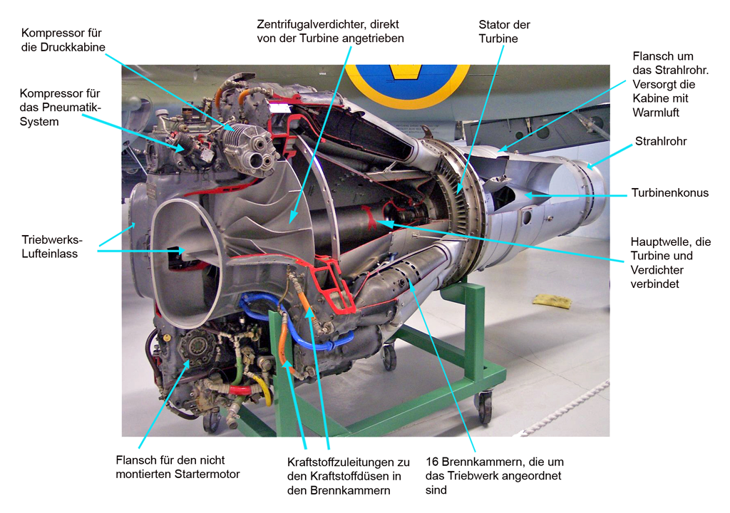 A picture of a sectioned de Havilland Goblin II describing (in German) the internal components.